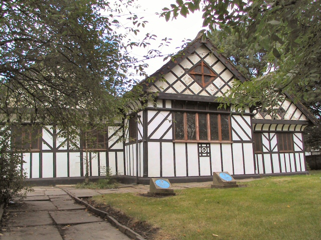 Church of England parish church of St Lawrence, Denton, Greater Manchester. The church is known locally as Th'Owd Peg because of its timber construction using wooden dowels instead of nails.